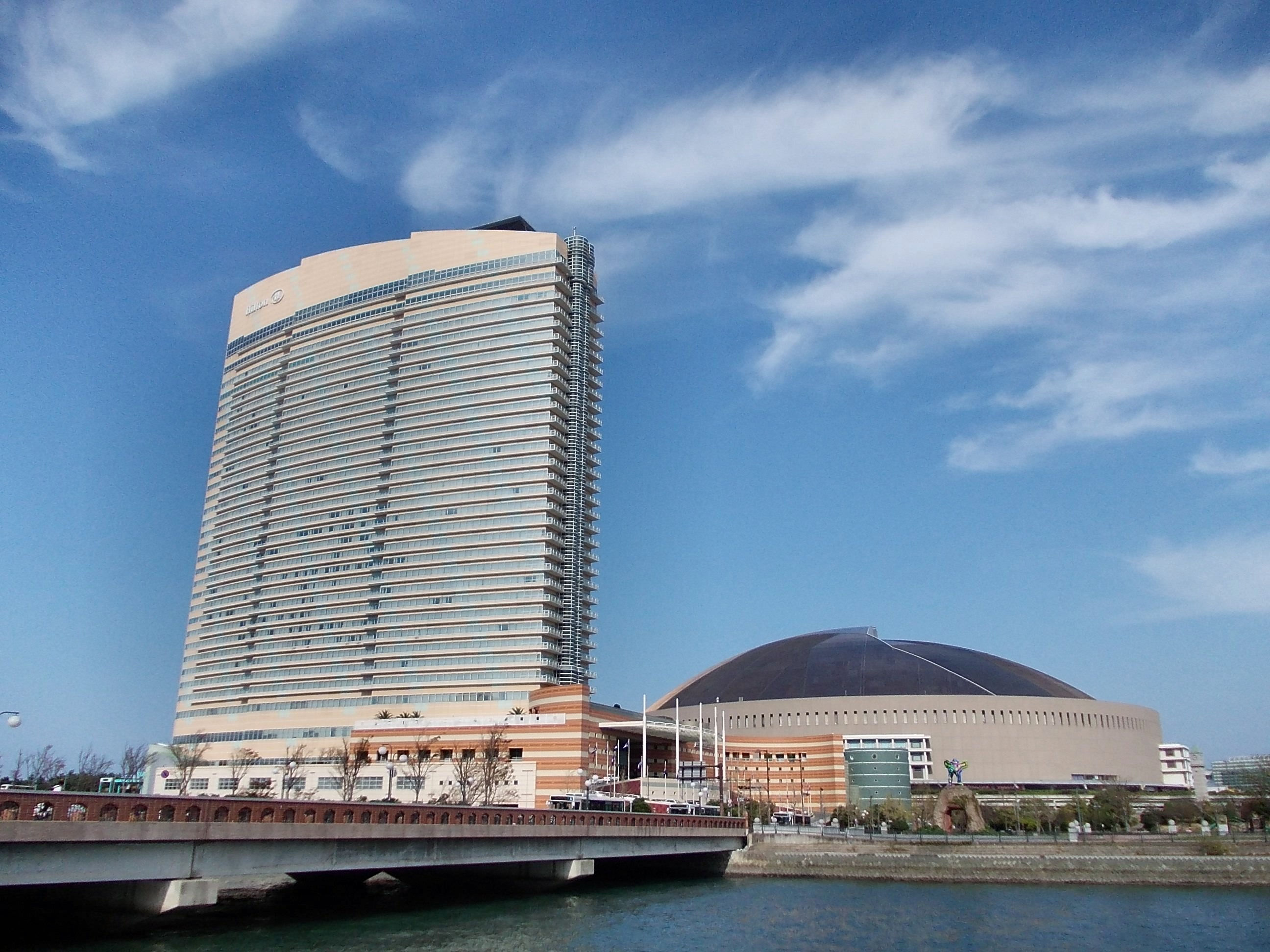 Hilton Fukuoka Seahawk (ex-JAL Resort Seahawk Hotel Fukuoka) on the left and Fukuoka Yafuoku! Dome on the right. Taken on 7 October 2011.